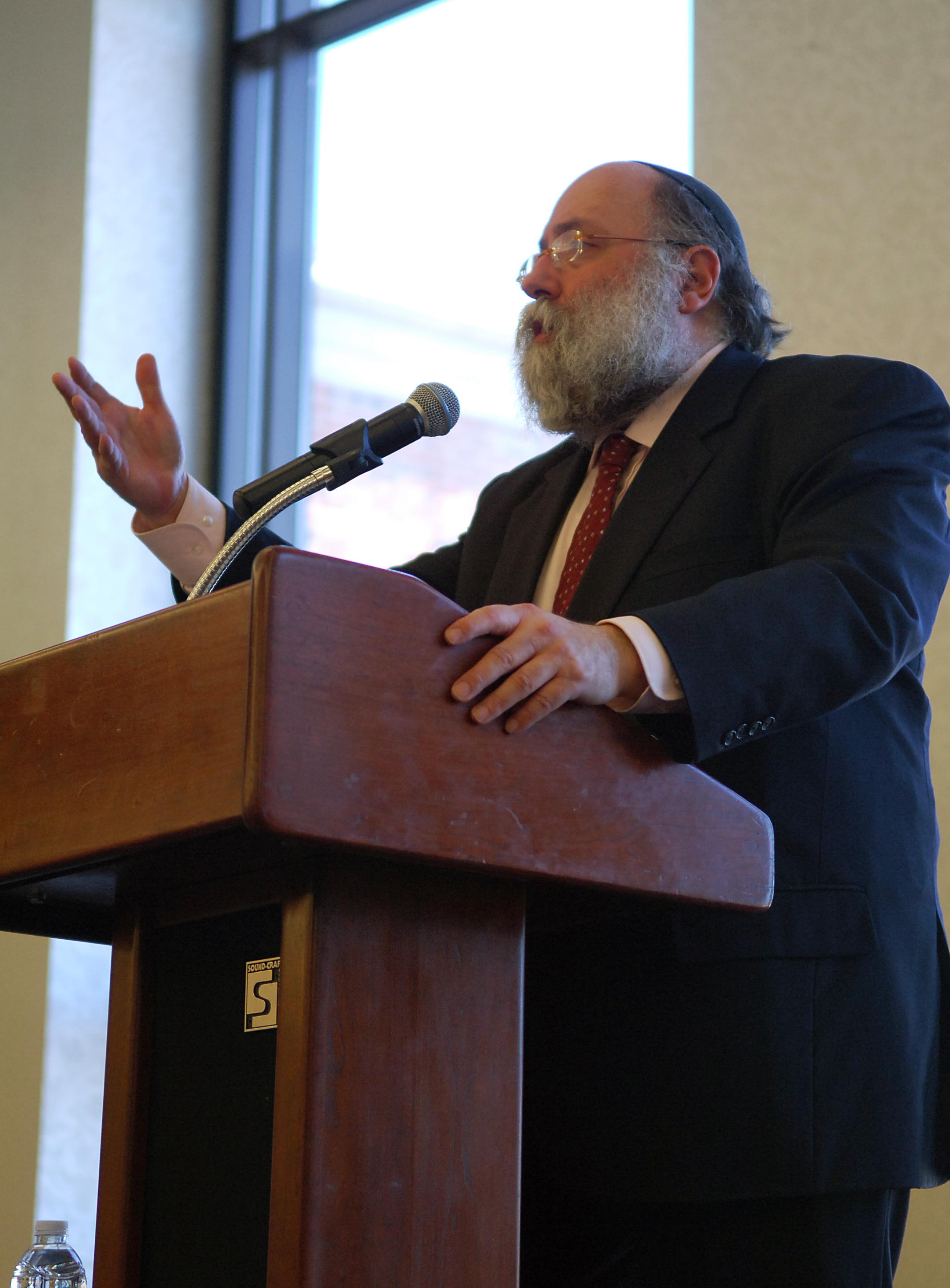 Rabbi Simon Jacobson speaks at the National Prayer Luncheon at Scott Air Force Base, Ill., on March 4, 2010. Rabbi Jacobson is the director of the Meaningful Life Center in Manhattan, N.Y. and the author of the bestselling book called "Toward a Meaningful Life"